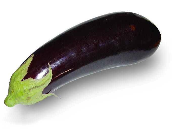 Eggplant